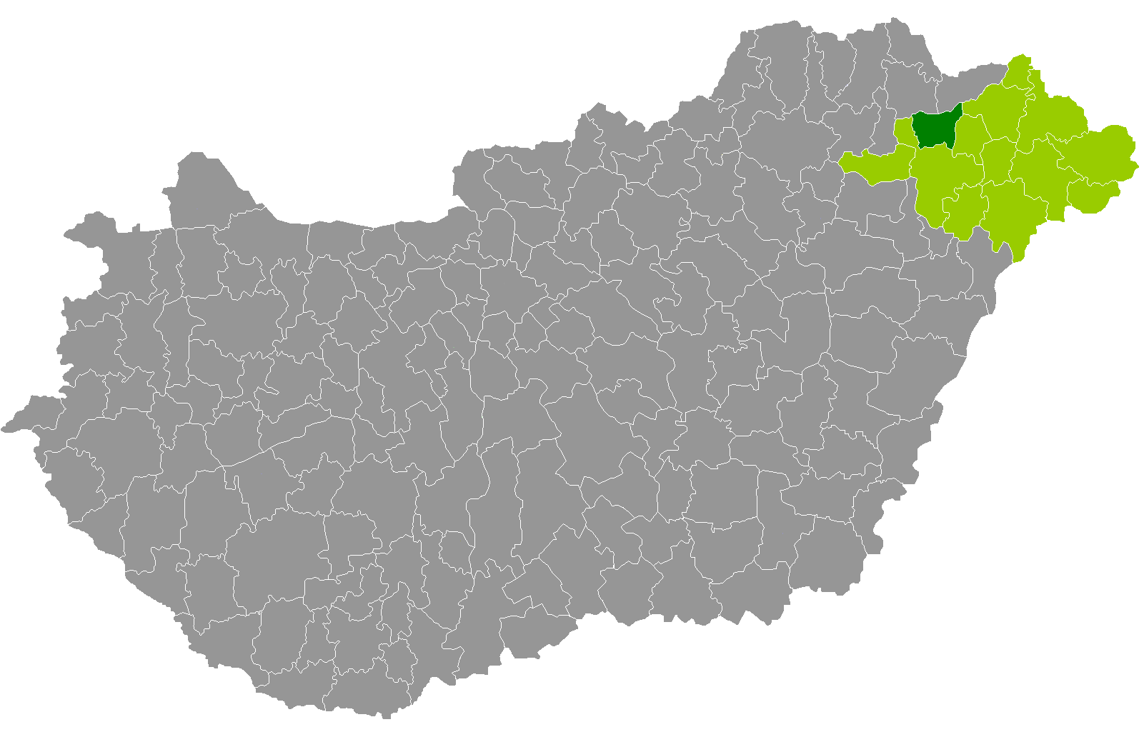 Location of Ibrány District, Szabolcs-Szatmár-Bereg, Hungary